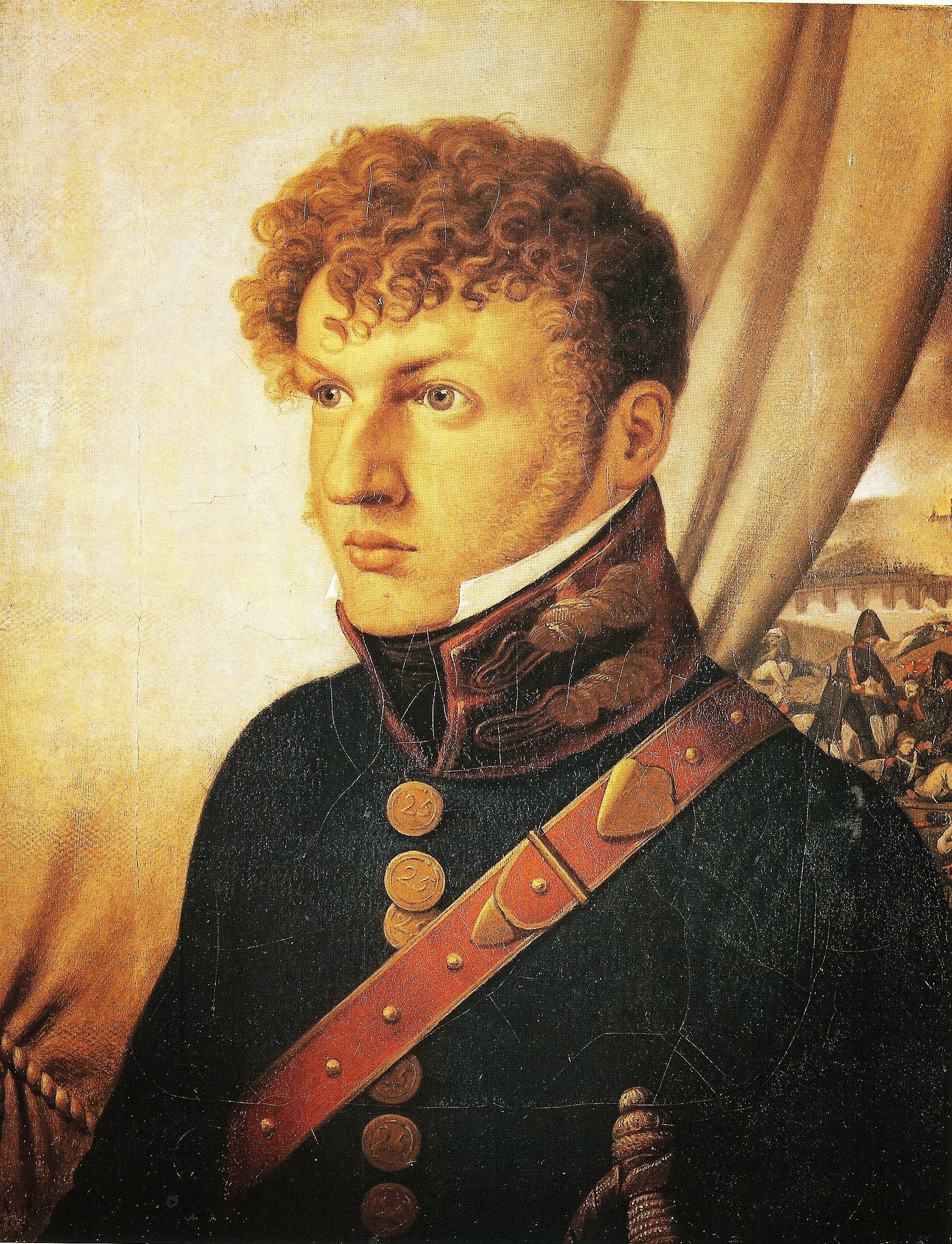 Portrait of Johann Christian Jeremias Martini as military surgeon of the Imperial French 25th Light Infantery Regiment, with Napoleon's crossing of the river Bidasoa in the right background